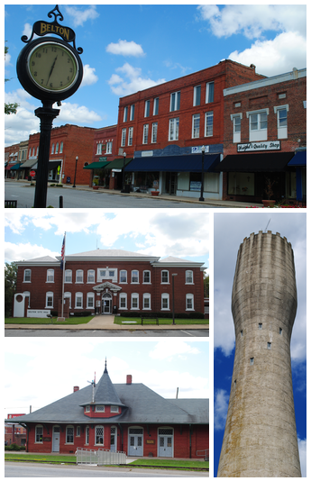 Photos I took around Belton, SC and placed in a montage.